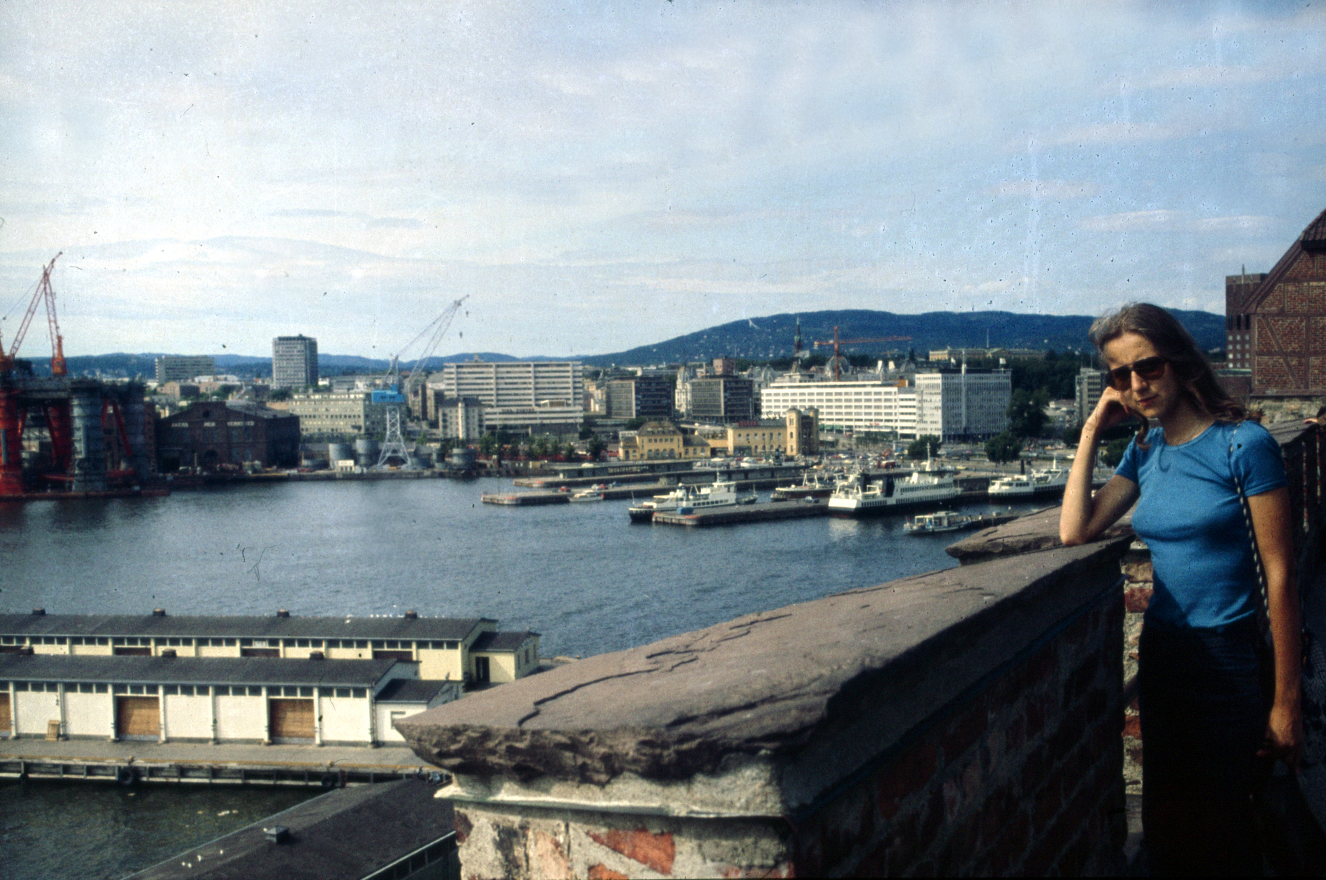 Oslo in Norway 1975